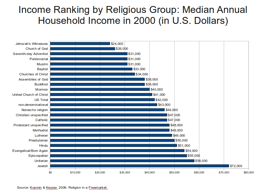 This is a chart illustrating income by religious group in the U.S. based on ARIS 2001.